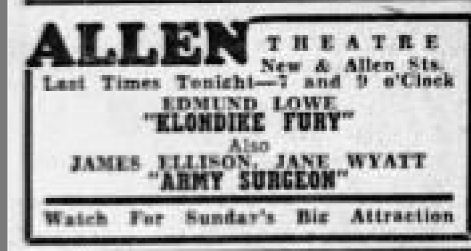 Allen Theater advertisement for the American films Klondike Fury (1942) and Army Surgeon (1942) - 29 Apr. 1943 Morning Call, Allentown PA